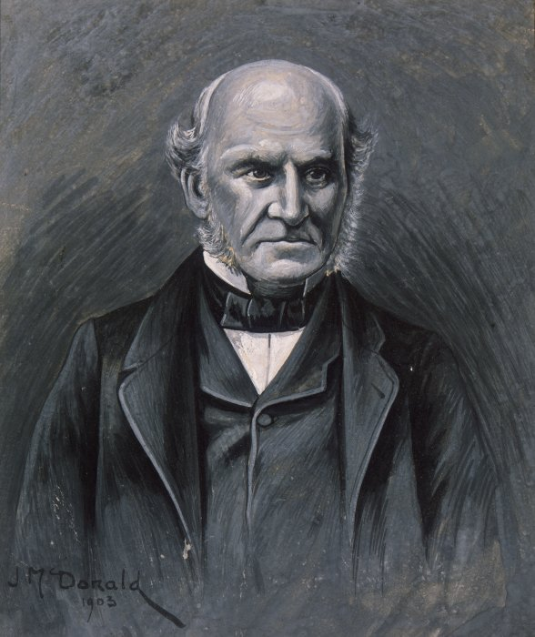 Head and shoulders portrait of Busby, James, 1802-1871, British Resident at Waitangi, whose house was used for the signing of the Treaty of Waitangi in 1840